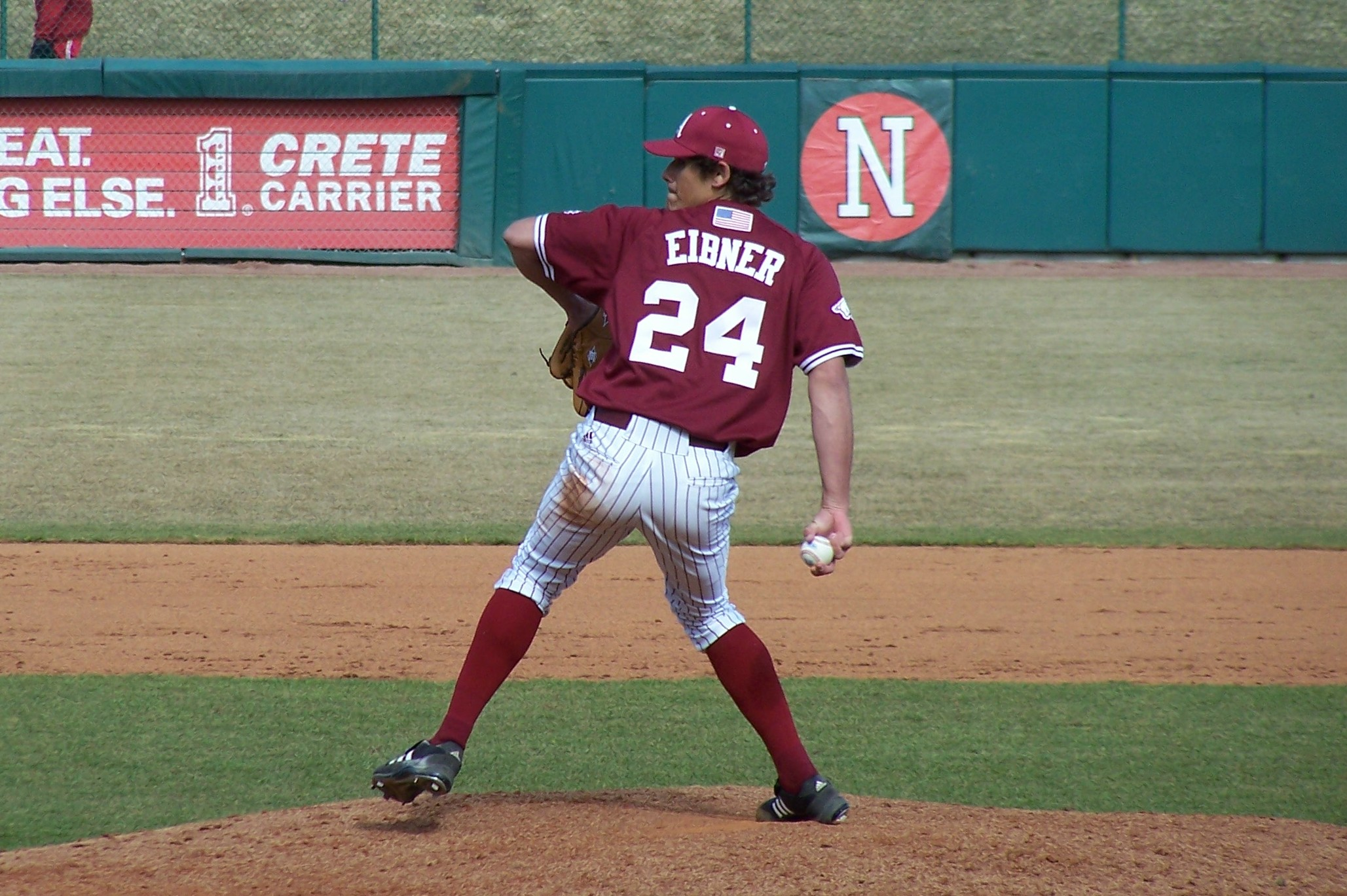 Brett Eibner playing for the Arkansas Razorbacks in 2008